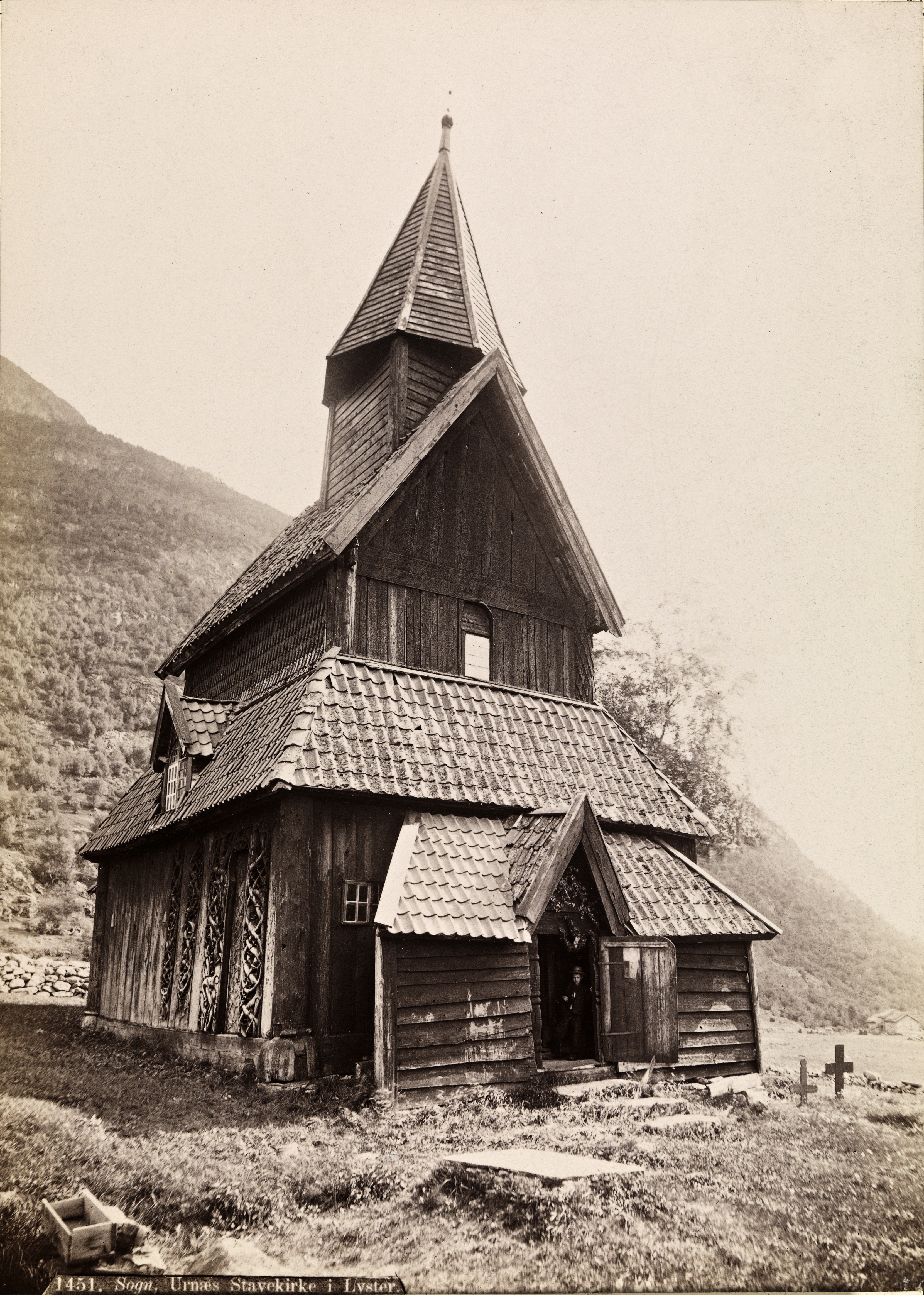 Beskrivelse / Description: Kirken regnes som Norges eldste bevarte stavkirke, og står på UNESCOs Liste over verdens kultur- og naturarv. Stavkirken er bygd ca. 1130–40 (kilde: snl.no). Dato / Date: ca 1880-1890 Sted / Place: Sogn og Fjordane, Luster, Urnes stavkirke Fotograf / Photographer: Axel Lindahl (1841-1906) Digital kopi av original / Digital copy of original: albuminkopi Eier / Owner Institution: Nasjonalbiblioteket / National Library of Norway Lenke / Link: Bildesignatur / Image Number: bldsa_AL1451